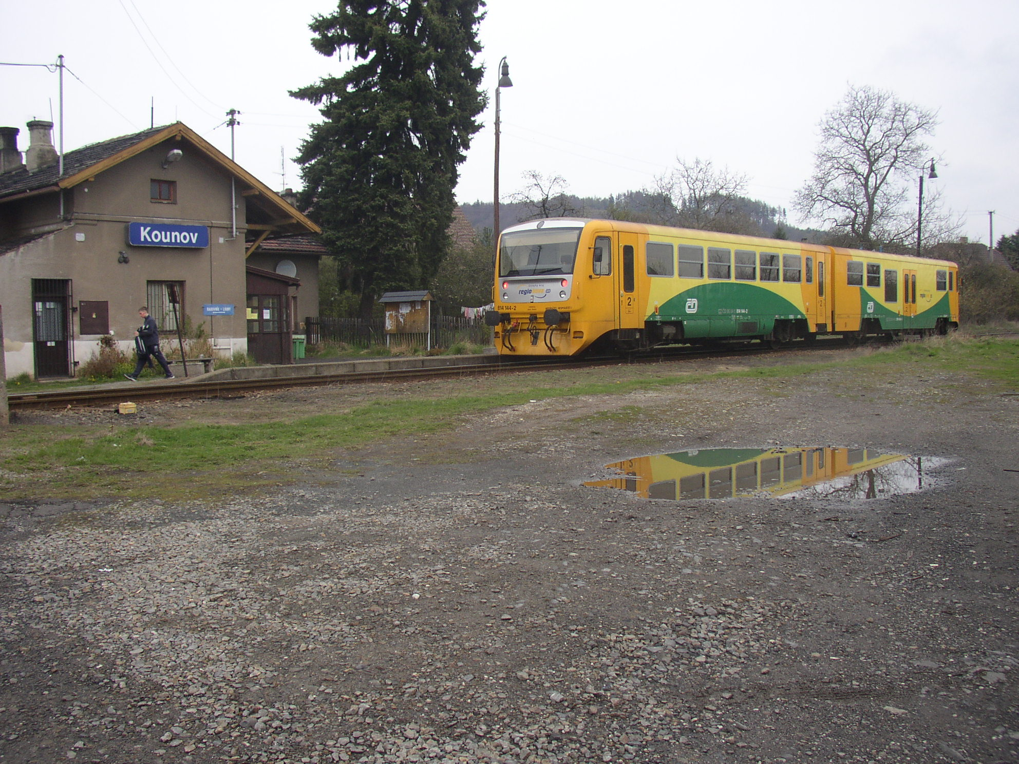 Kounov, Rakovník District, Central Bohemian Region, Czech Republic. Railway station on Line 126 (Rakovník – Louny – Most), located in western part of the village. Class 814/914 diesel multiple unit.